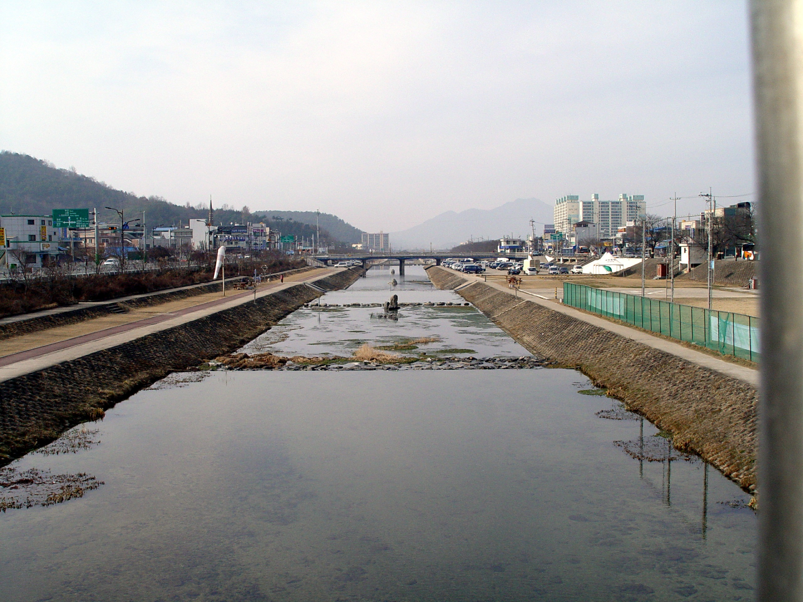 Looking downstream along the Jeongeupcheon from Chosan Bridge, Jeongeup, South Korea